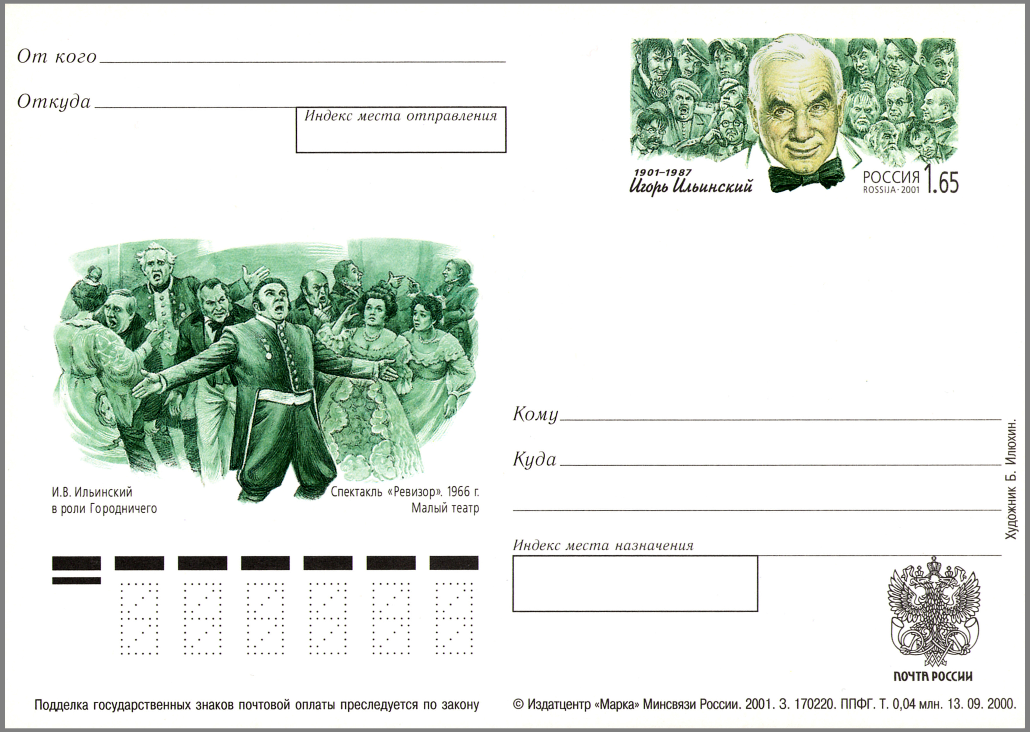 100th birth anniversary of Igor Ilyinsky (1901—1987), a Soviet cinema and theater actor and a director. The postal stationery card with the imprinted commemorative stamp, Russia, 2 July 2001, PTC Marka Catalogue No 115-окр/01, Michel No PSo107. Coated paper. Offset printing. Size of the postal card: 105×148 mm. Print run: 40,000. The commemorative stamp (1.65 ₽): the portrait of Igor Ilyinsky against roles of the actor. The illustration: the Scene Without Words from the comedy The Government Inspector (Maly Theatre, 1952), Igor Ilyinsky (in the centre, with outstretched arms) as the Governor.